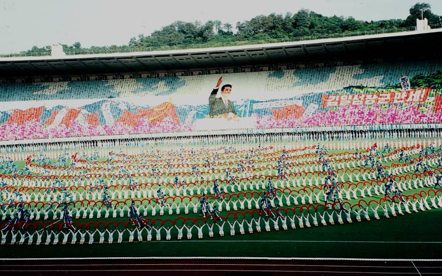 A mass games performance in Pyongyang, North Korea. Taken by ProhibitOnions in 1998.